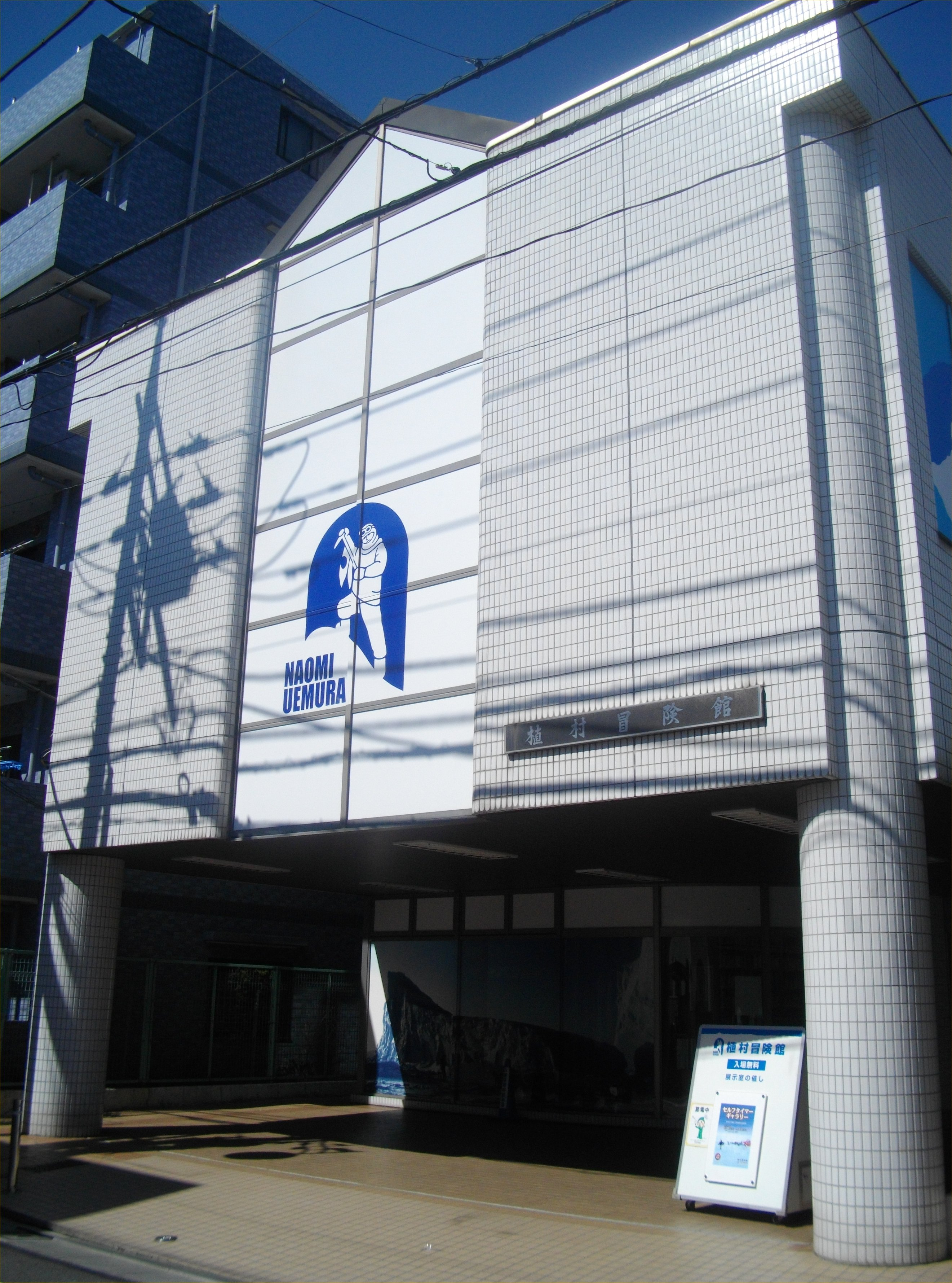 A photo of an overview of Uemura Bokenkan(Uemura Museum Tokyo)Hasune,Itabashi-ku,Tokyo,Japan.